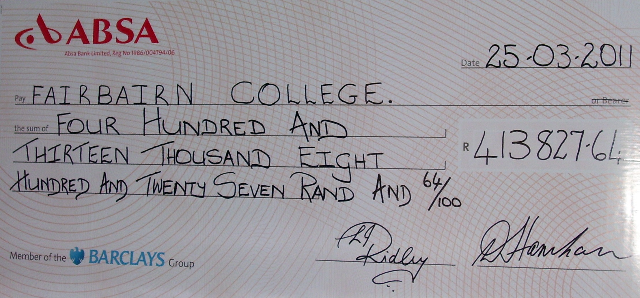 Photograph of a "dummy" cheque presented at an Assembly of Fairbairn College to indicate to the pupils how much money they had raised in the school's annual "Big Walk" fundraising activity.